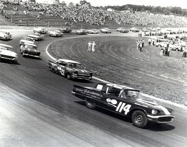 This is a photo that was taken during a NASCAR race in 1958. The leading car is a Ford Thunderbird.